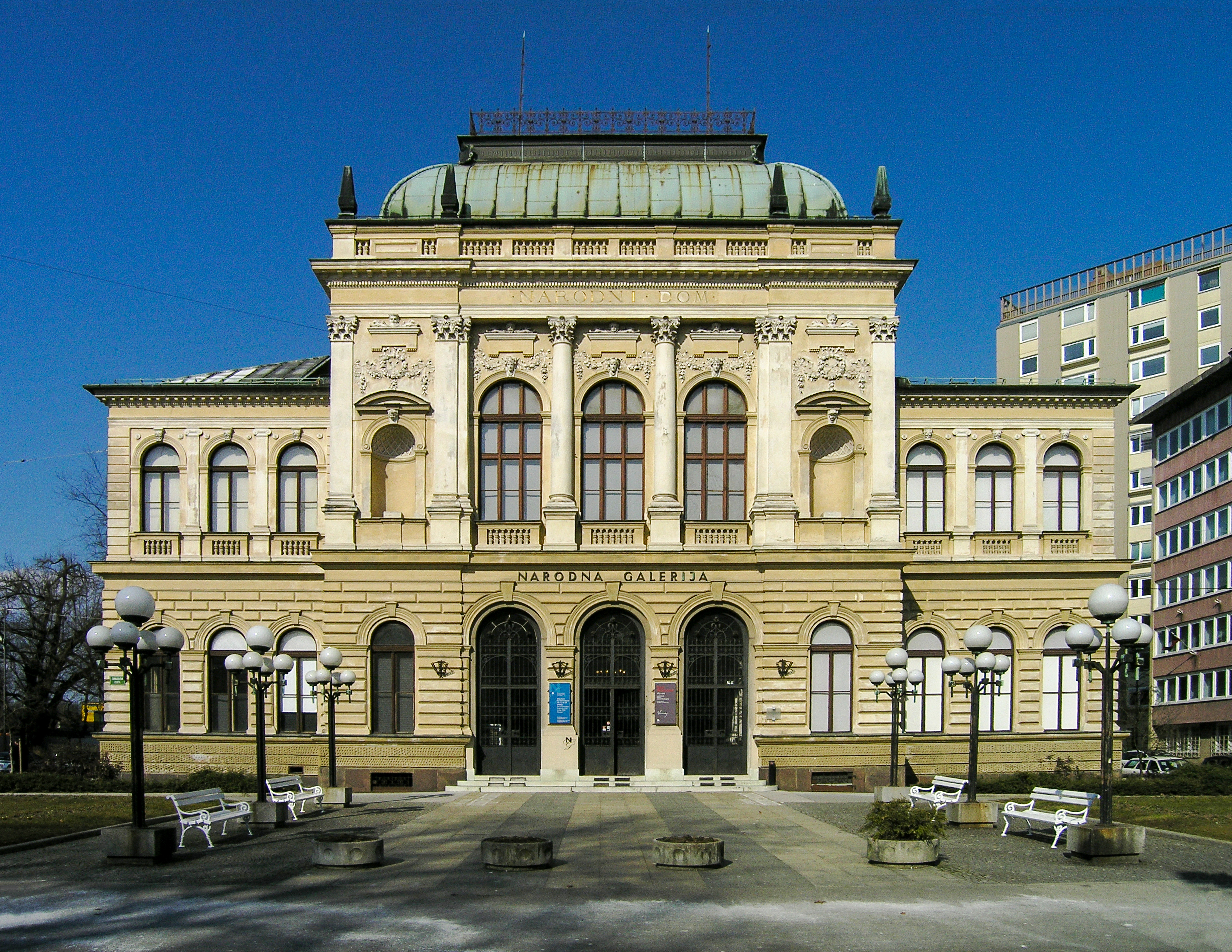 National gallery in Ljubljana, Slovenia.